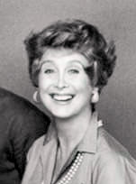 1976 cast photo from the television program Laverne and Shirley. Standing, from left: Carole Ita White (Rosie Greenbaum), Phil Foster (Frank DeFazio), Eddie Mekka (Carmine Ragusa), Betty Garrett (Edna Babish). Middle row, standing: Penny Marshall (Laverne DeFazio), Cindy Williams (Shirley Feeney). Seated : Michael McKean (Lenny), David Lander (Squiggy).